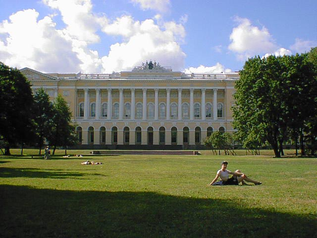 Saint Petersburg (Russia), Mikhailovsky Garden, Michael Palace (State Russian Museum)